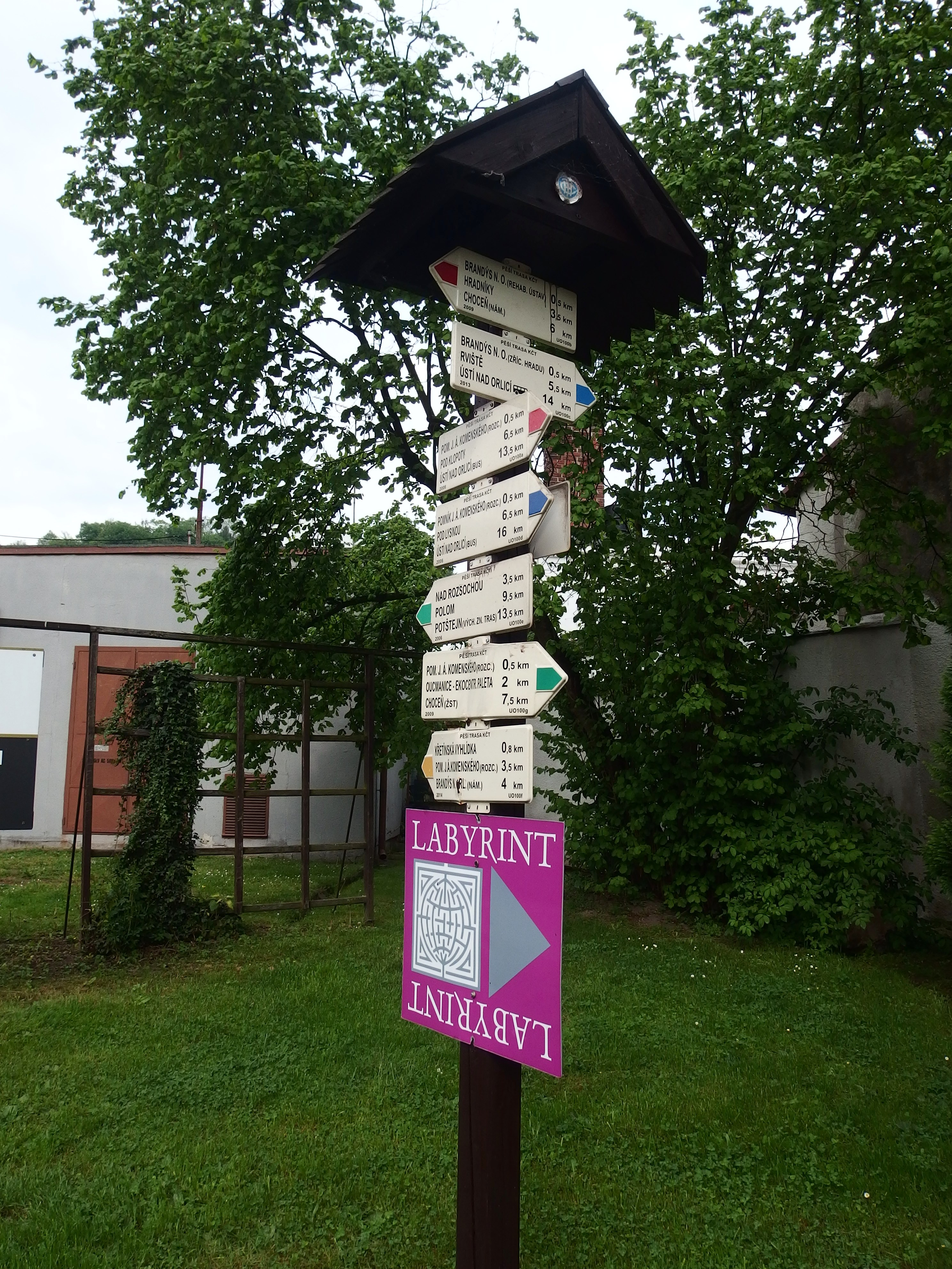 Brandýs nad Orlicí, Ústí nad Orlicí District, Czech Republic.